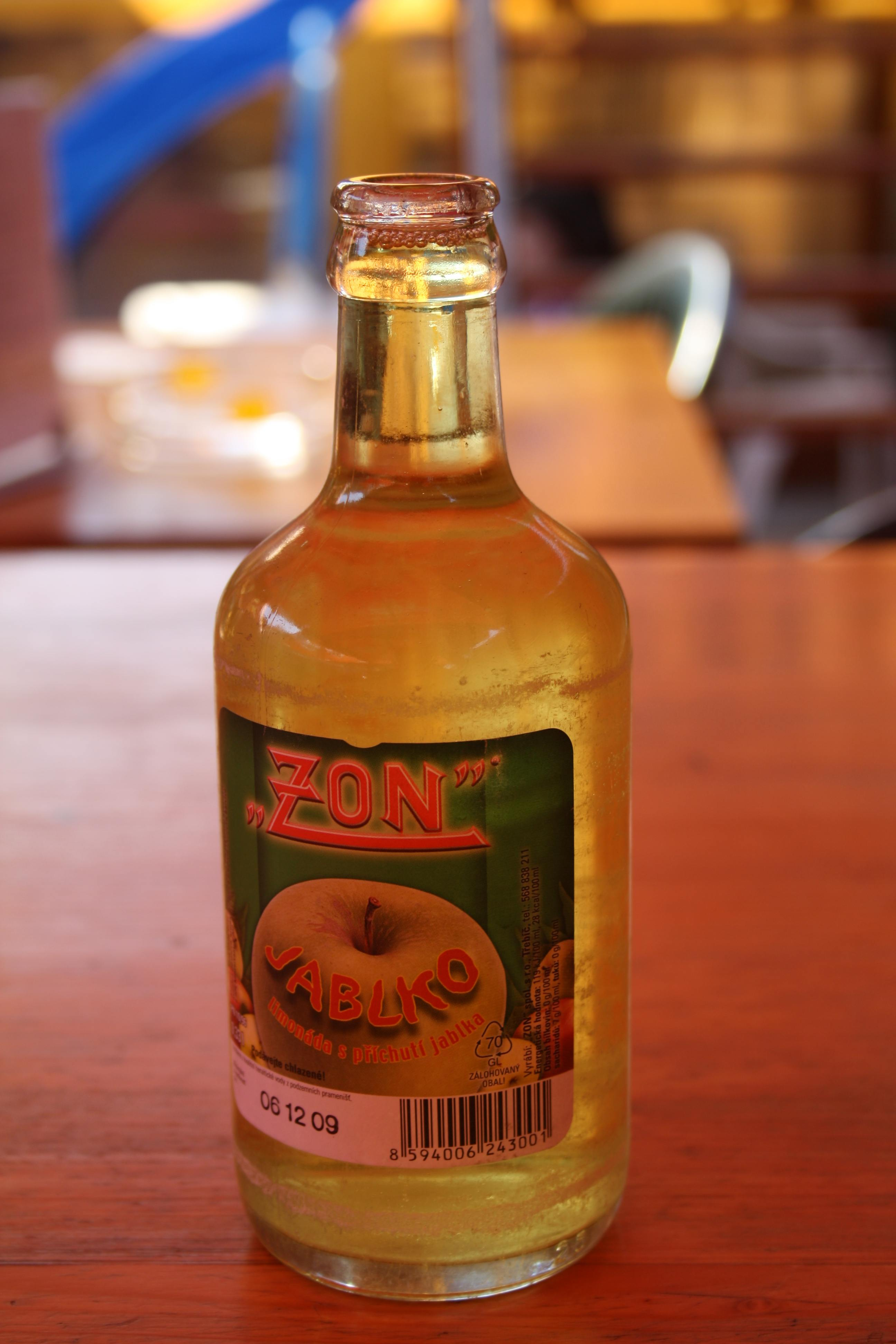 Classic glass bottle of Třebíč ZON apple lemonade.